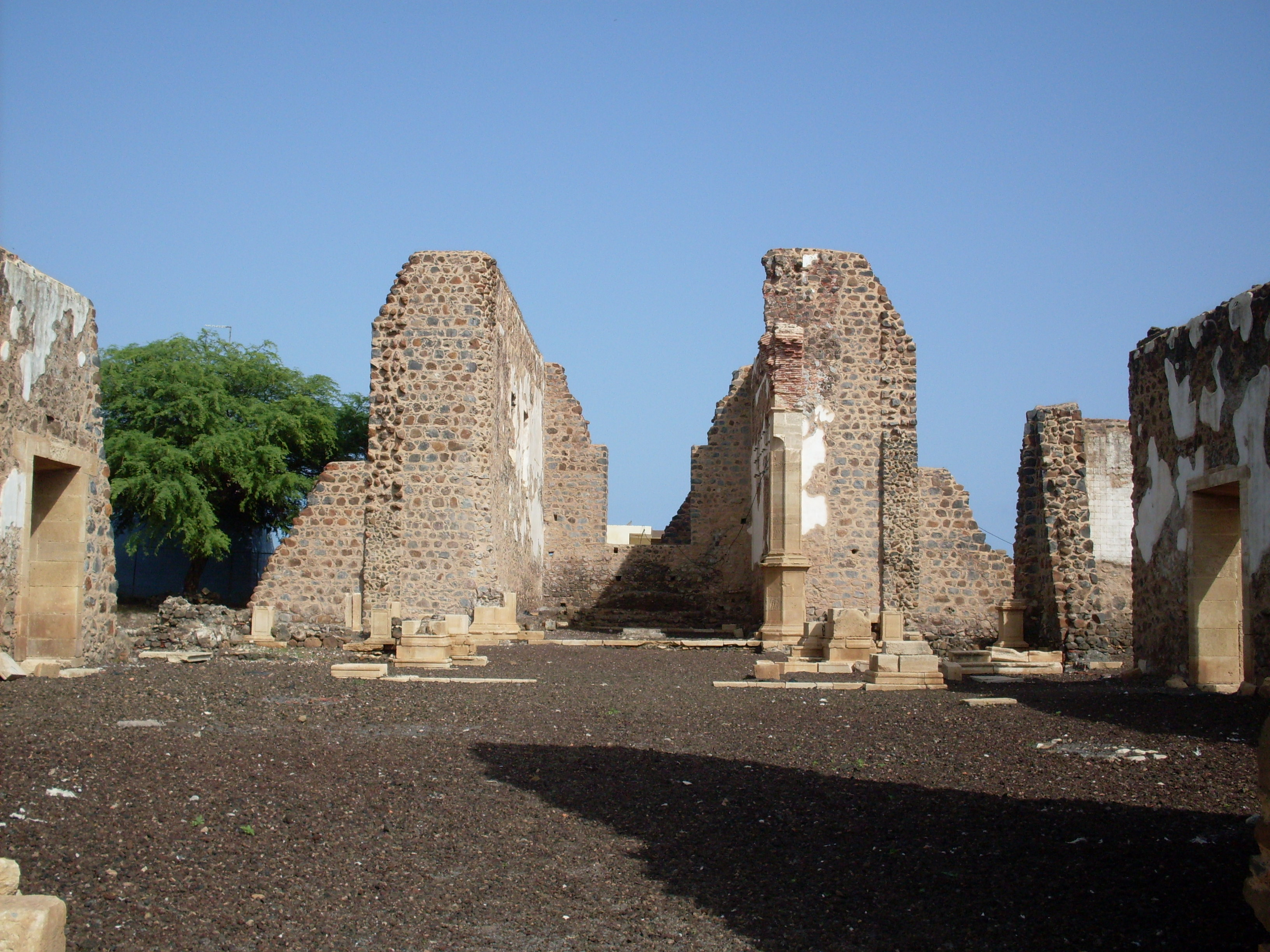 Ruins of the old cathedral in Cidade Velha, Cape Verde